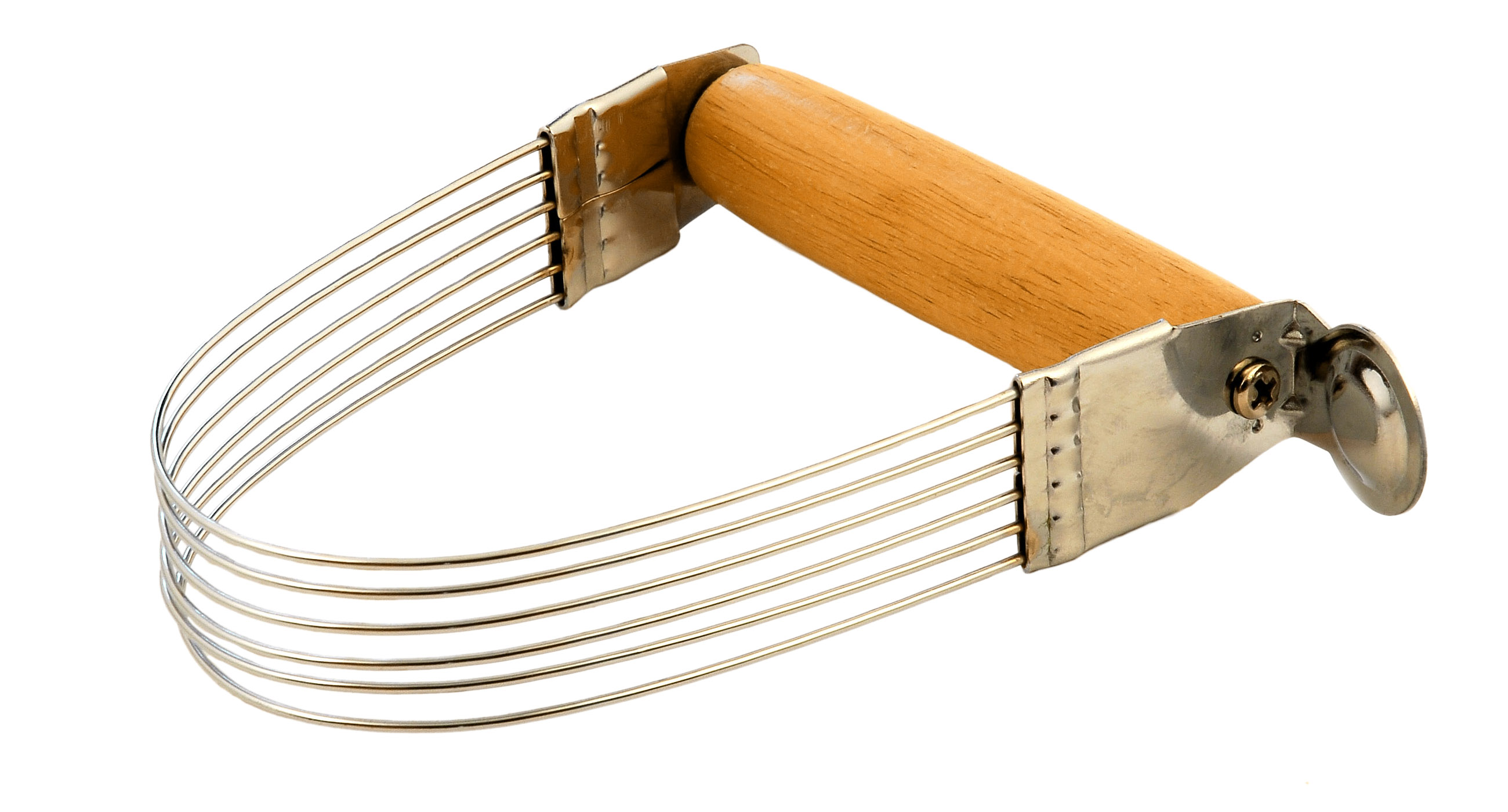 A dough blender; also called a pastry blender.